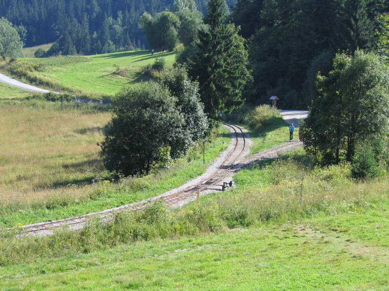 Logging Back Swath Railway, Vychylovka, mountain pass Beskyd